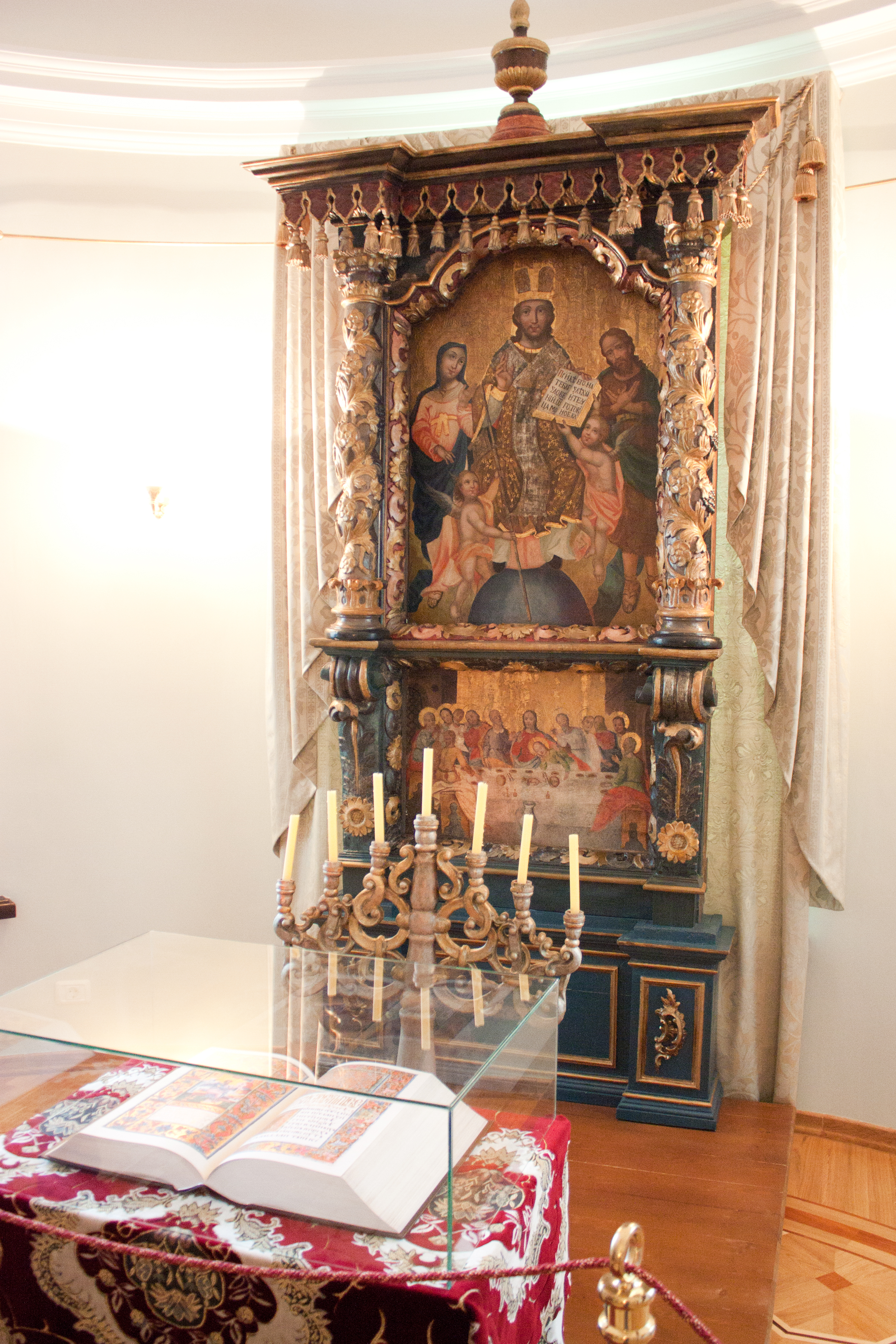 The interiors of Count Kyrylo Rozumovsky's palace in Baturyn